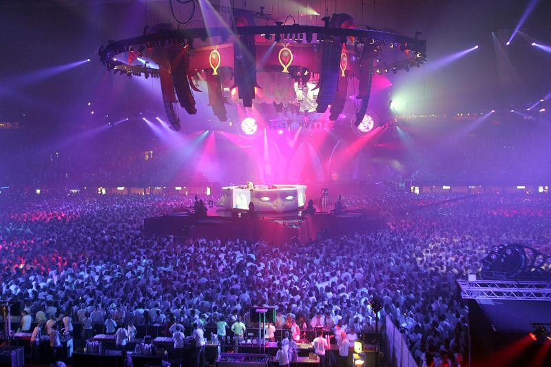 Sensation White 2006